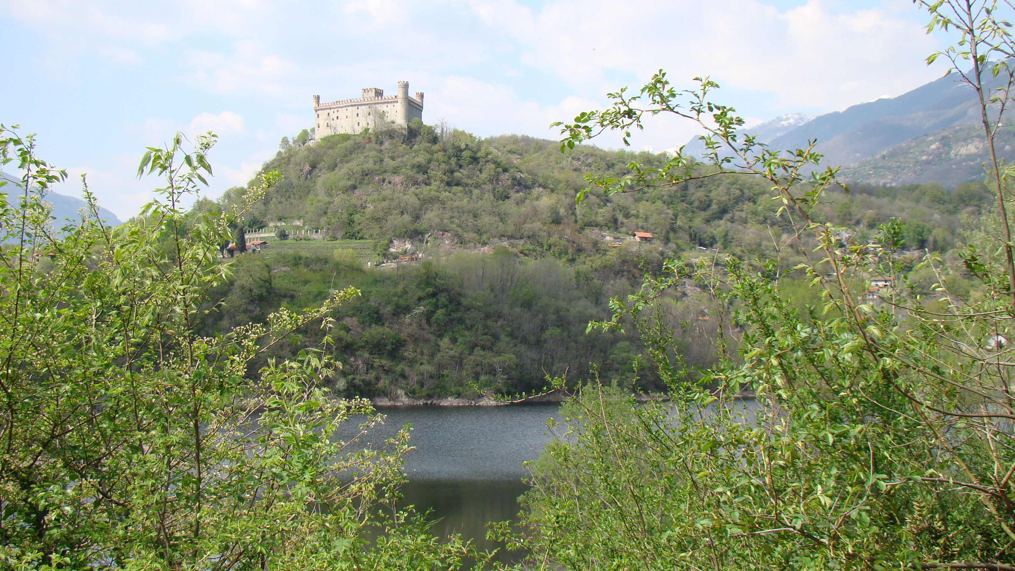 Montalto's Castle (Montalto, Piedmont, Italy) seen from the bank of Lake Pistono.